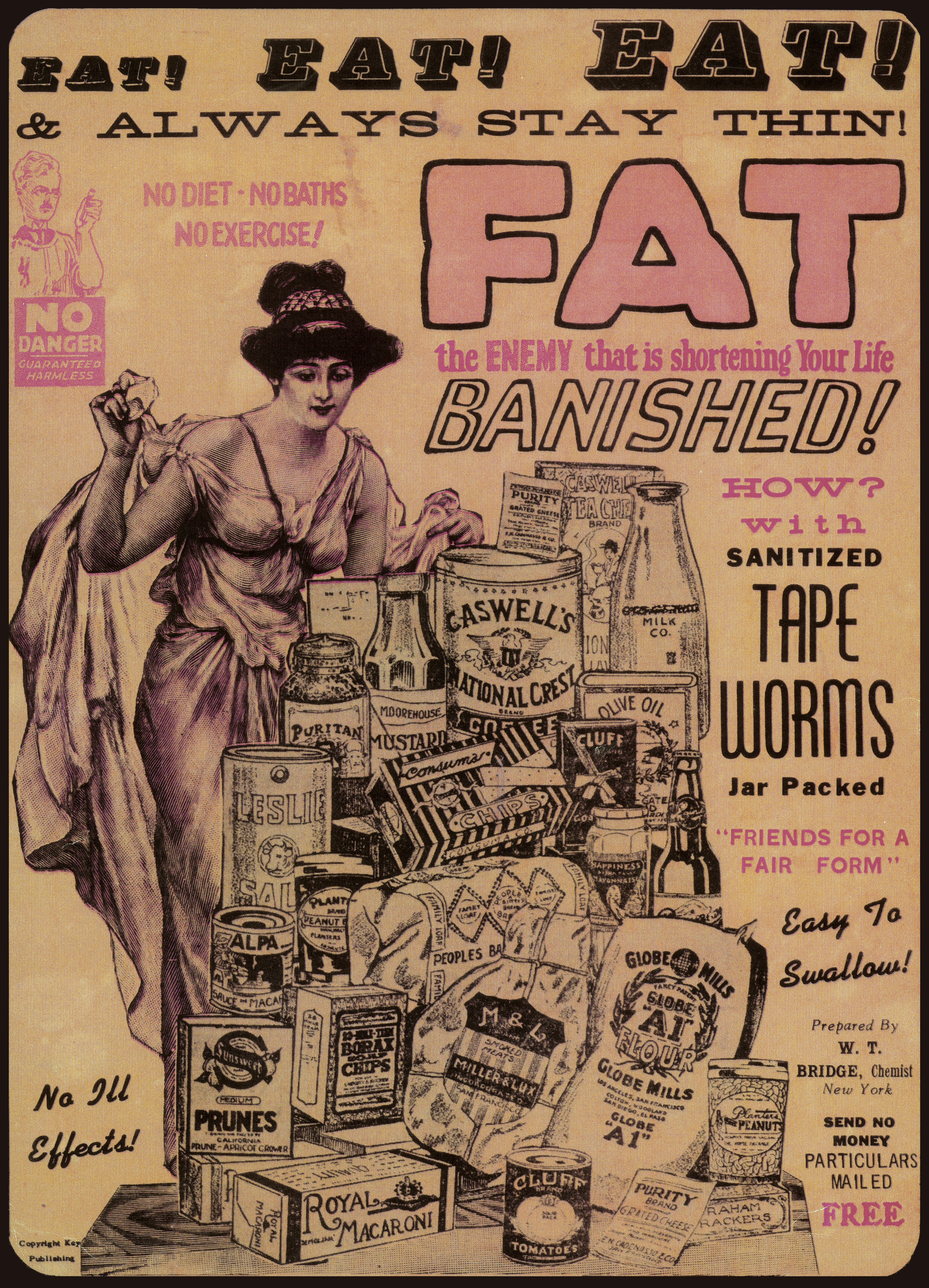 In the perennial battle of will over weight, consumers were finally offered an effective means of weight reduction around the turn of the 20th century – tapeworms! Fortunately, this “easily swallowed,” “sanitized,” and “jar packed” product proved ineffective.